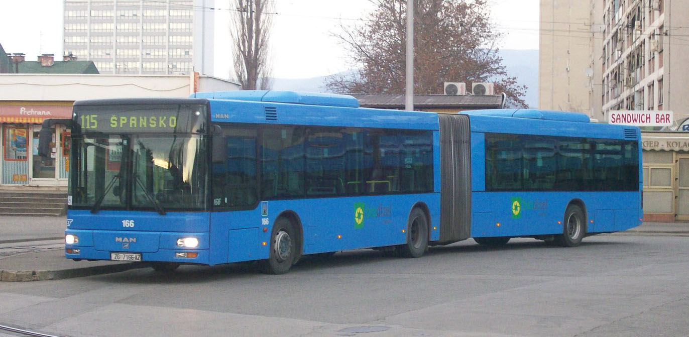 MAN NG 313 city bus (#166) in Zagreb, Croatia. Built 2004.